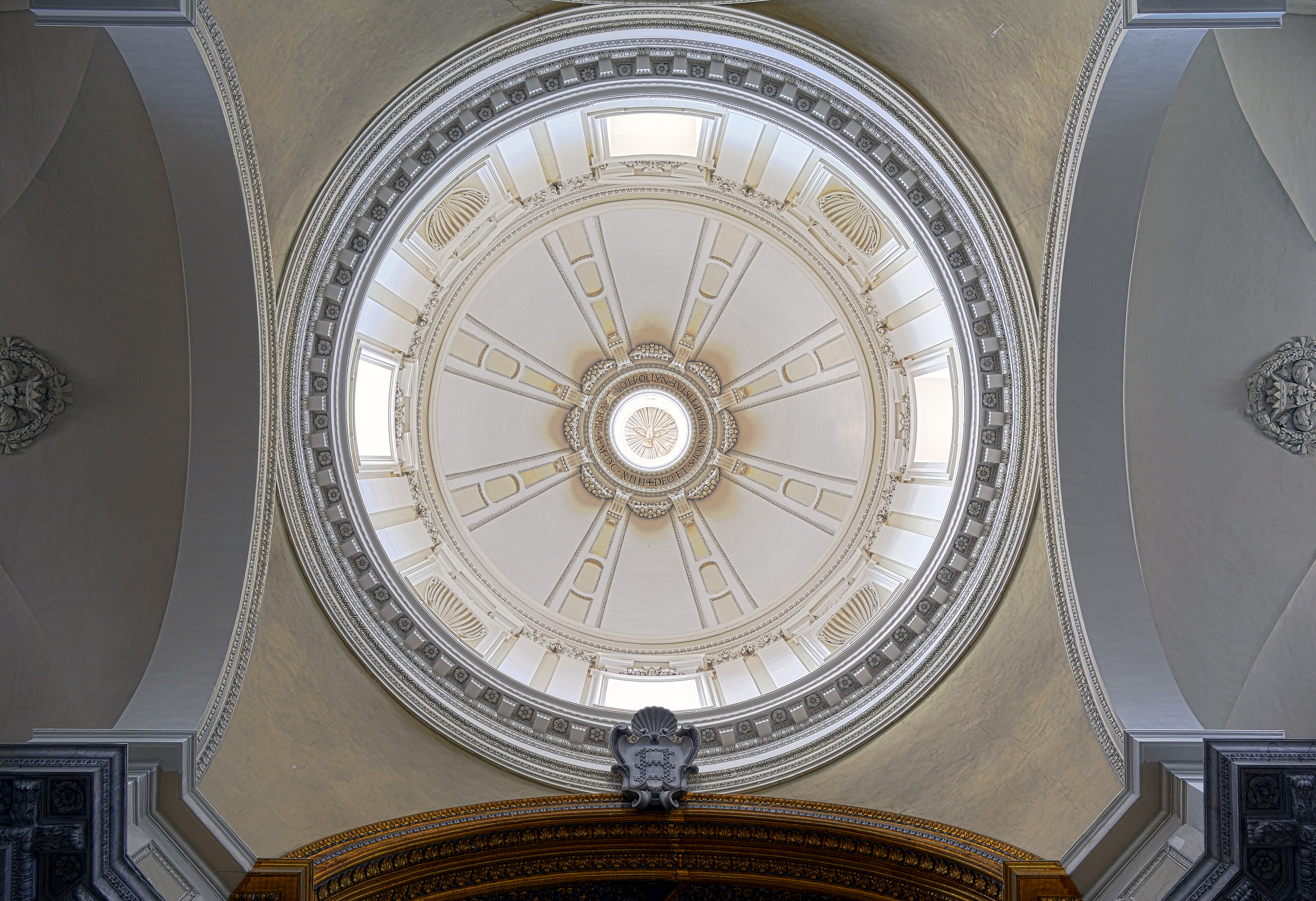 Dome of San Giovanni dei Fiorentini (Rome) HDR